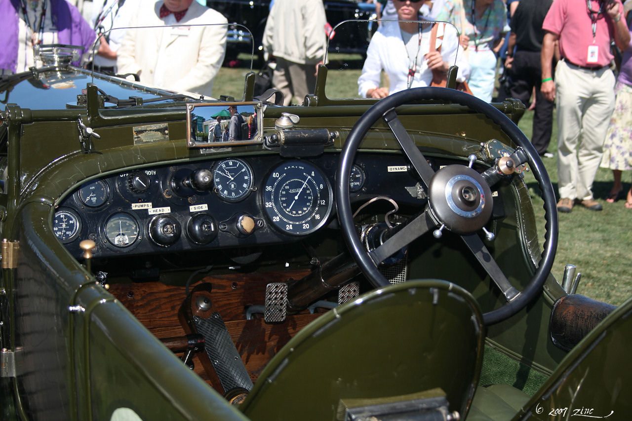 Bentley Speed Six - Old Number 2 1930 Original coachwork 4-seater by Vanden Plas Chassis HM2868 11 ft wheelbase Engine HM2872 Speed Reg GF 8507 delivered May 1930 Source of data—Vintage Bentleys